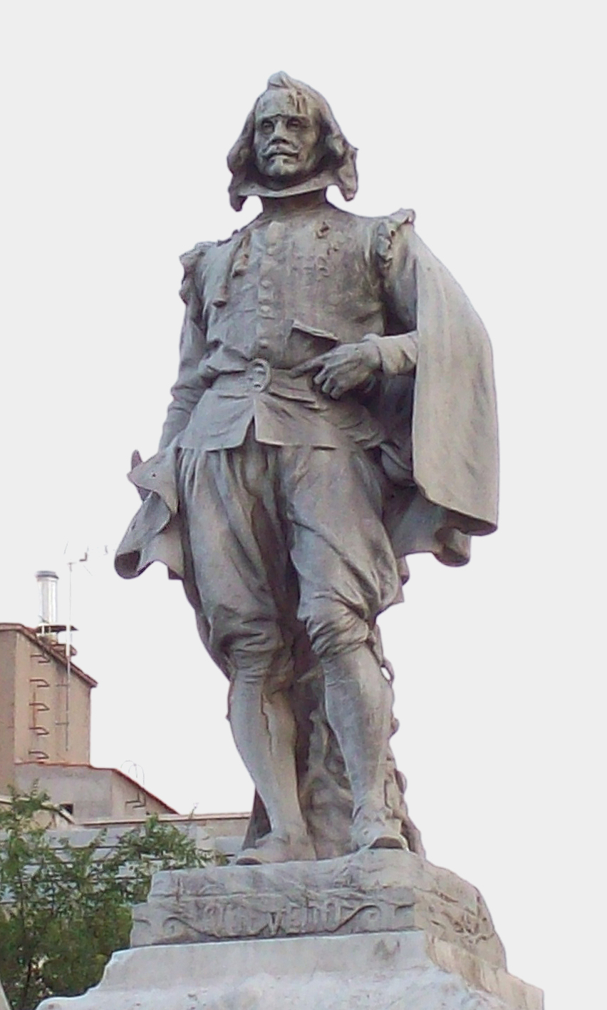 Marble statue of Francisco de Quevedo (1580–1645). Detail of the monument to him in Madrid (Spain), sculpted by Agustí Querol (1860–1909) in 1902.